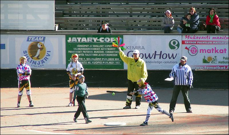 Girls playing pesäpallo at Siilinjärvi, Finland